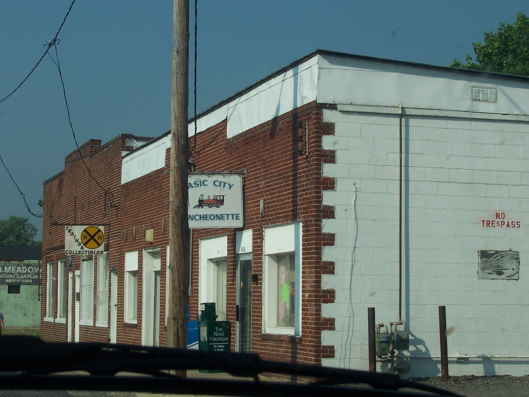 One of the remaining downtown buildings in what used to be Basic City, Virginia, but is now part of Waynesboro, Virginia.